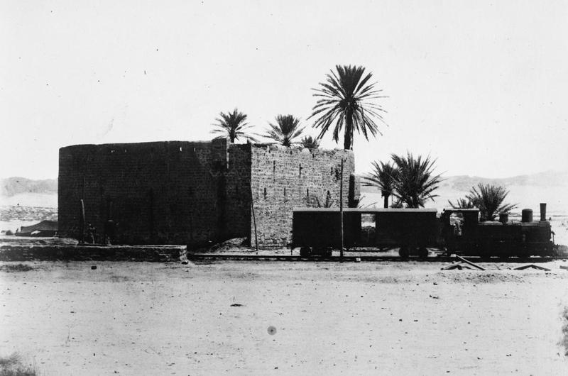 T E Lawrence and the Arab Revolt 1916 - 1918 Hejaz Railway - Citadel at Medain Saleh with reservoir for drinking water for the pilgrims, in the caravan days.